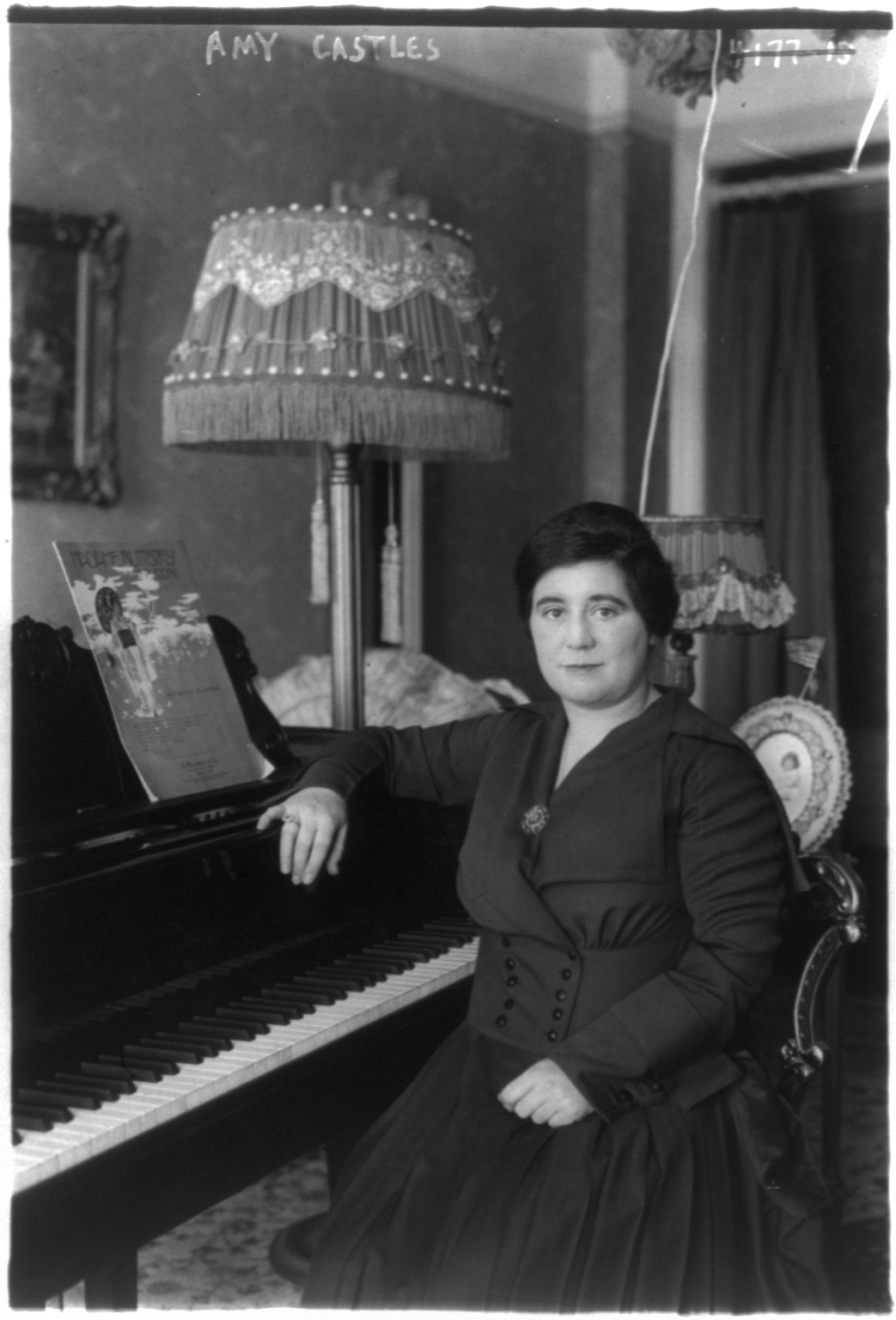 Title: Amy Castles, three-quarters length portrait, seated at piano, facing slightly left. Australian singer Abstract/medium: 1 photographic print.